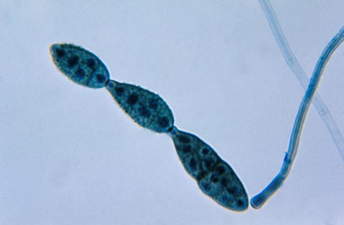 ID#: 3963 Description: This photomicrograph shows a chain of conidia of a Alternaria sp. fungus, which can be a cause of phaeohyphomycosis. The spores of Alternaria sp. fungi are multi-cellular, pigmented, and are produced in straight chains, or branching chains. The end of the conidium nearest the conidiophore is round as it tapers towards its apex, imparting a beak-like appearance. Content Providers(s): CDC/Dr. Lucille K. Georg Creation Date: 1955 Copyright Restrictions: None - This image is in the public domain and thus free of any copyright restrictions. As a matter of courtesy we request that the content provider be credited and notified in any public or private usage of this image.